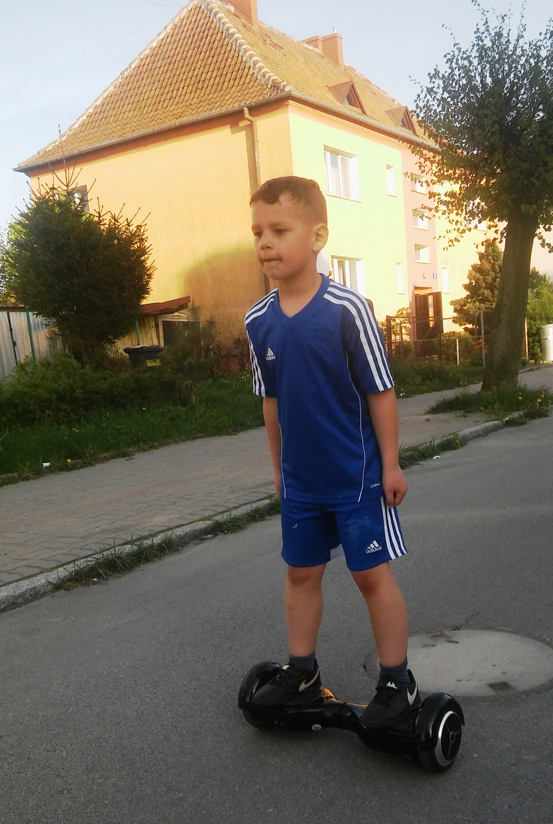 skateboard electric hoverboard